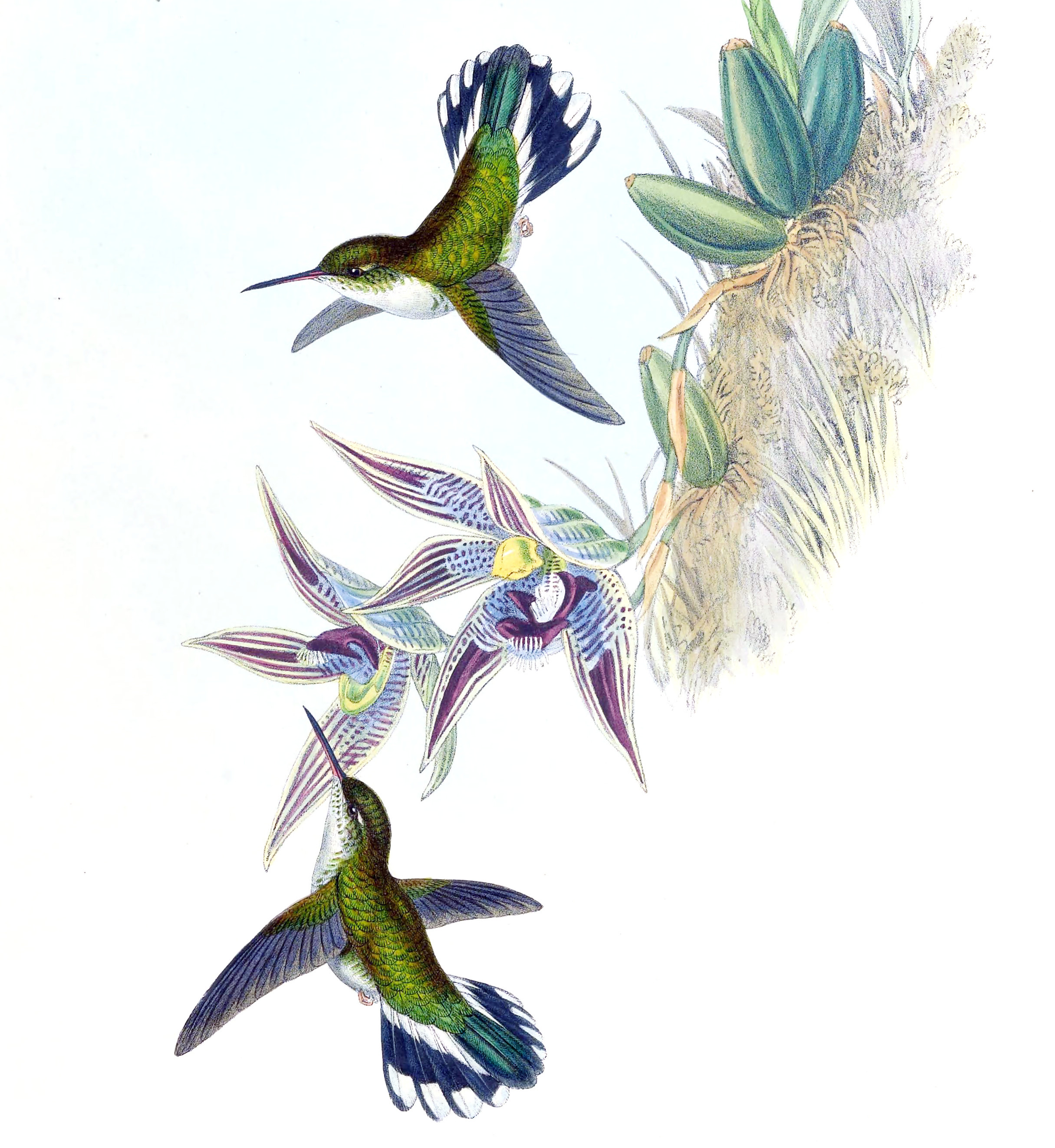 Illustration of Phlogophilus hemileucurus on Paphinia cristata (orchid)